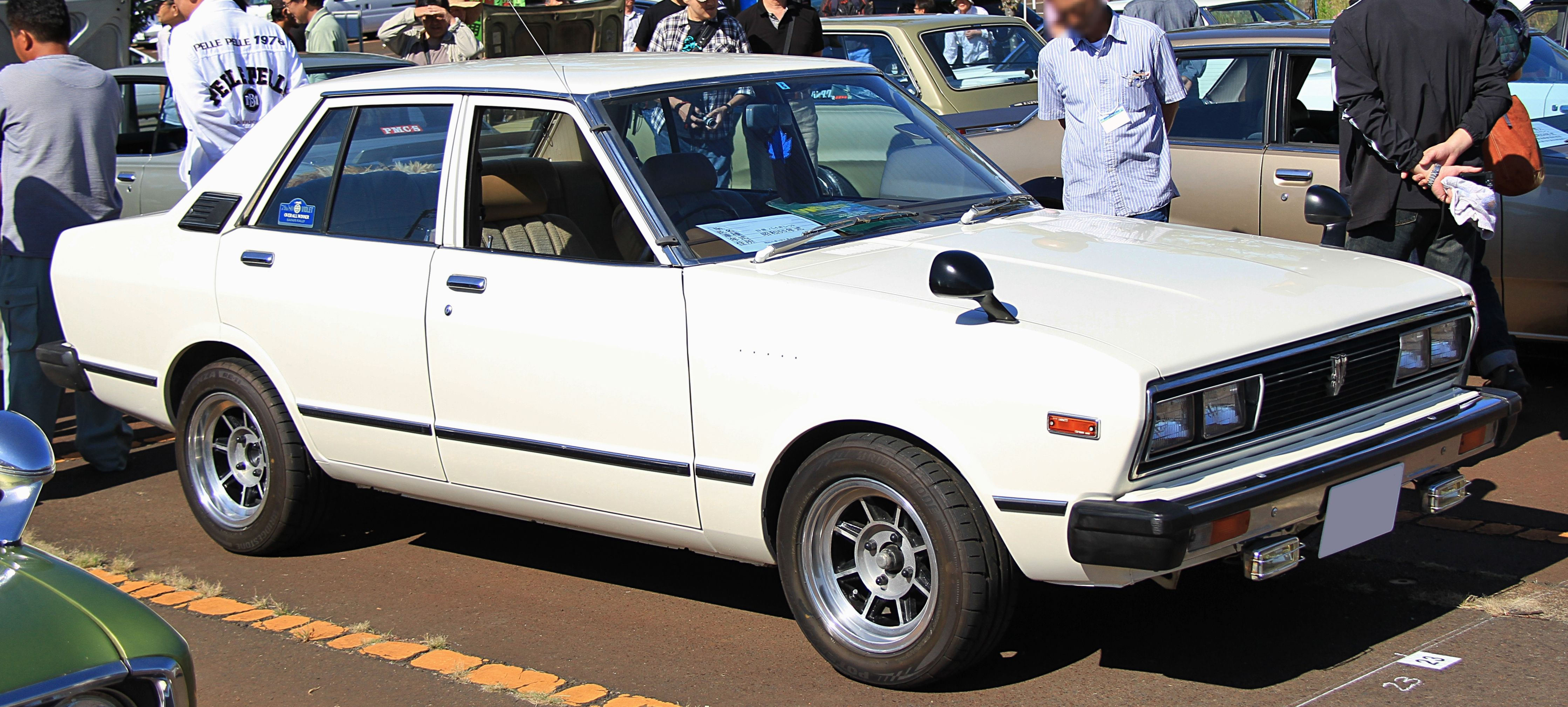 Nissan Violet